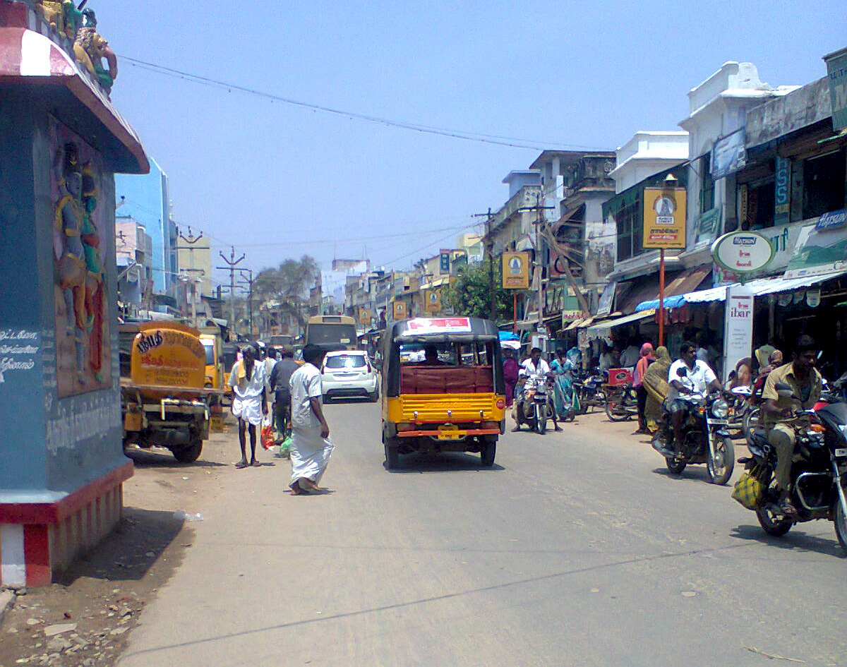 Shot at Tirumangalam - Usilampatti road, Tirumanglaam